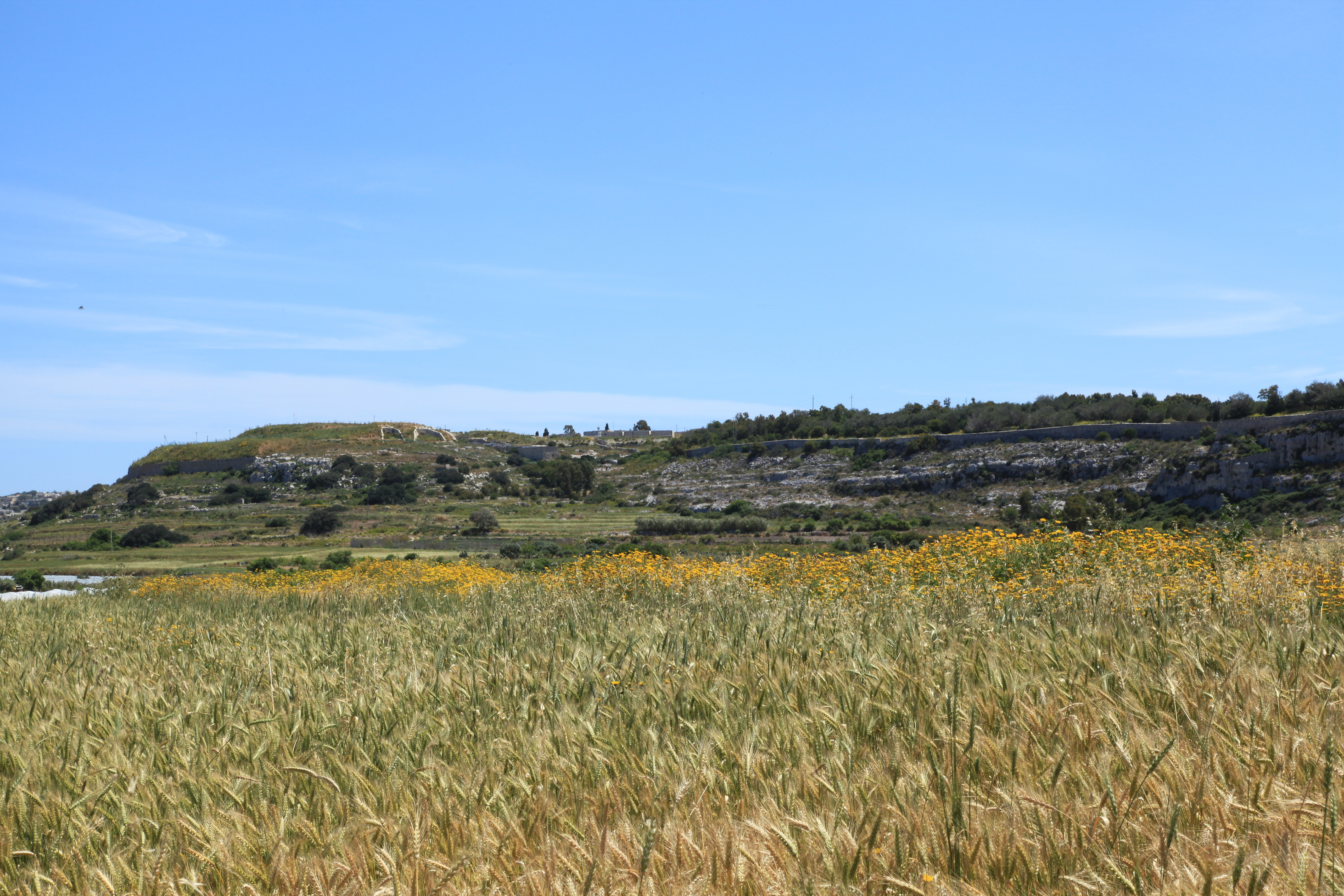 Agricultural lowlands in St. Paul's Bay and Fort Mosta and the Victoria Lines on top of the hill in Mosta